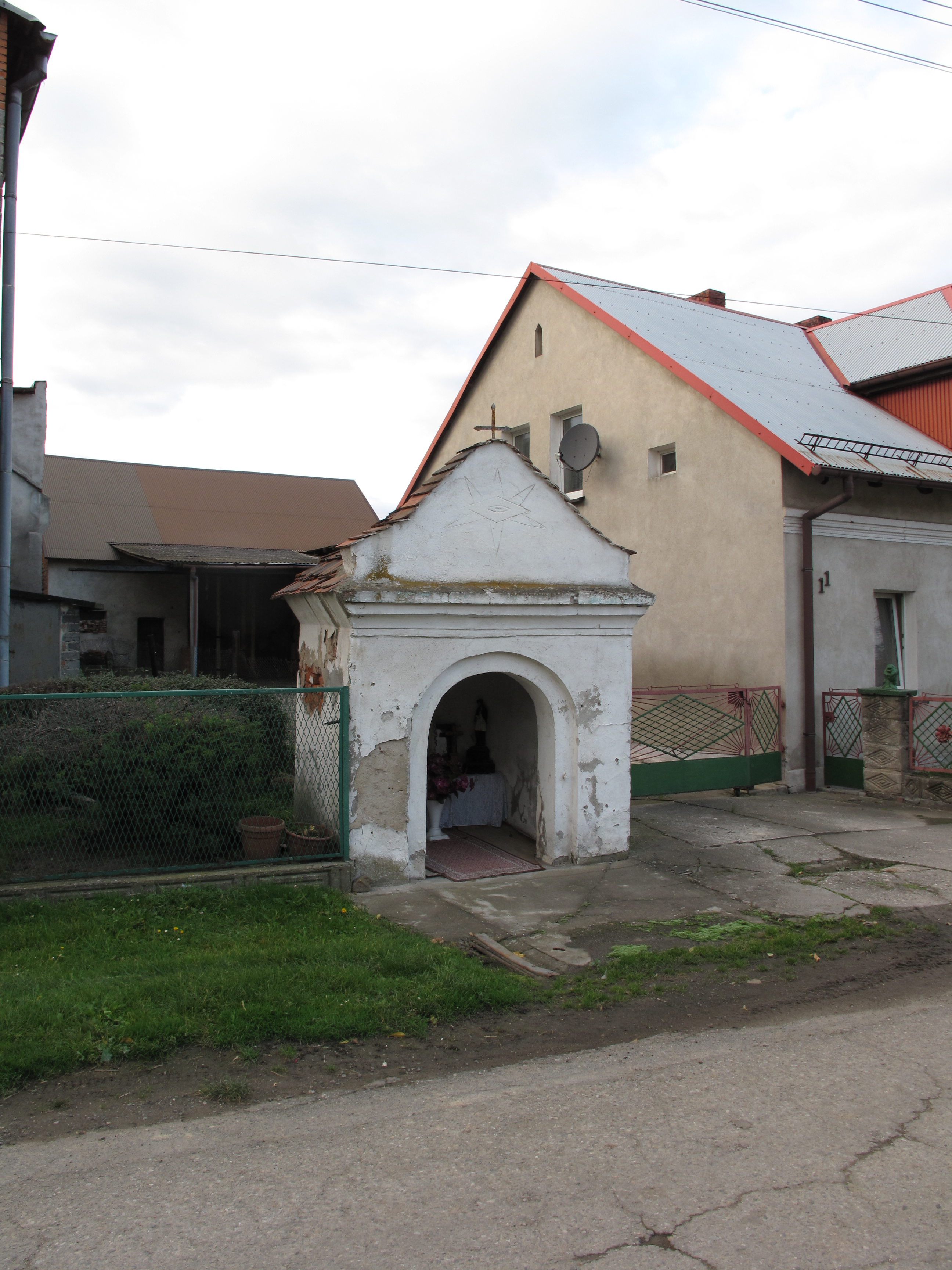 Ponięcice. Racibórz County, Poland.